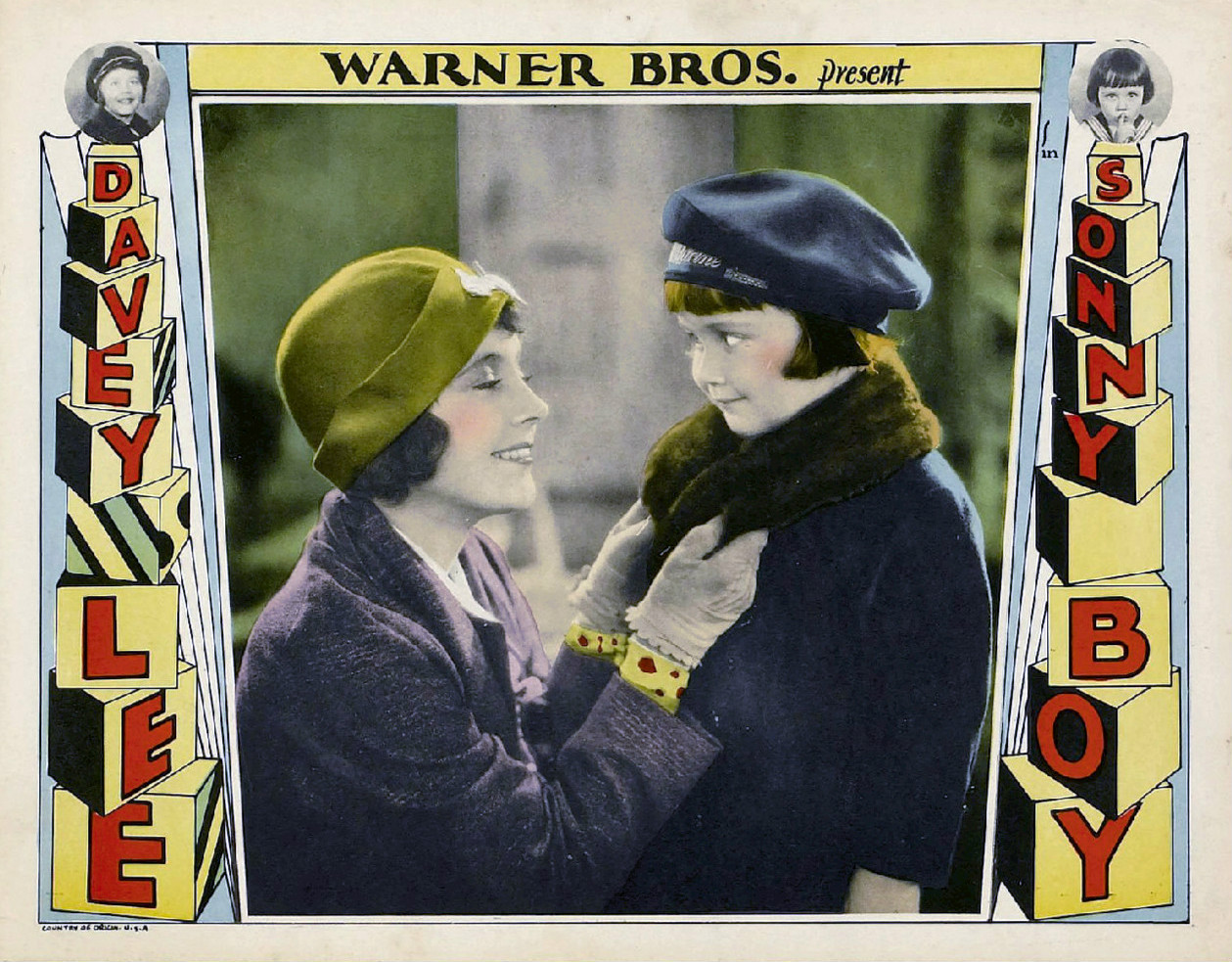 Lobby card for the American comedy film Sonny Boy (1929). The item has no copyright markings on it as can be seen in the links above. At bottom left (in border) is Country of origin USA.